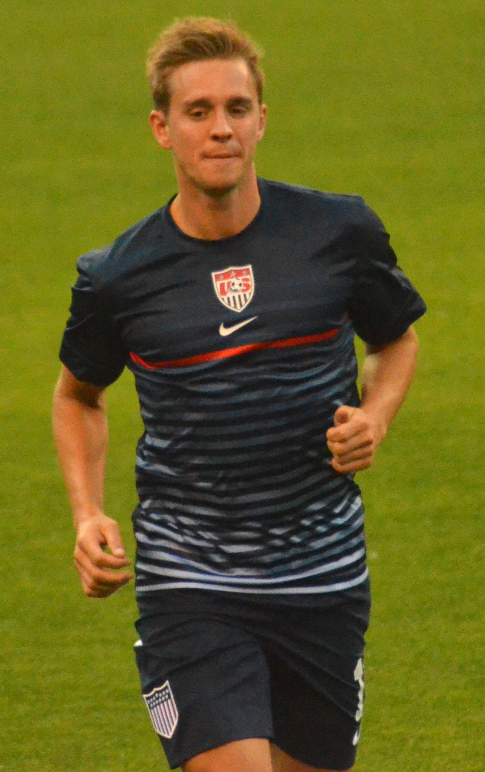 FirstEnergy Stadium Home of the Cleveland Browns